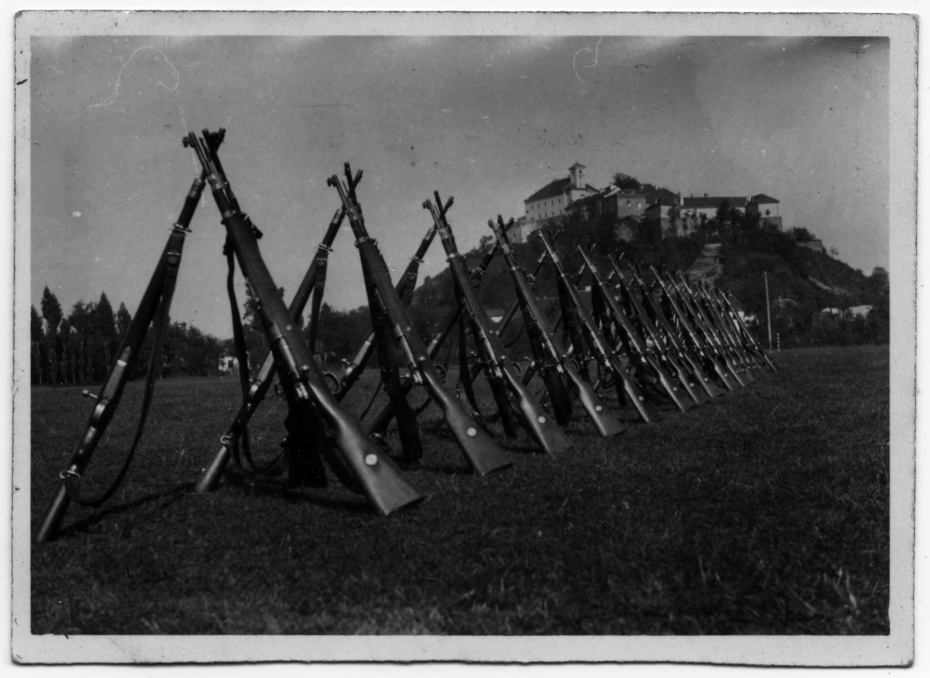 Zakarpattia befor 1938 (zone Mukachevo, castle Palanok) Photos: Czechoslovak Armed Forces, M. Hubalek